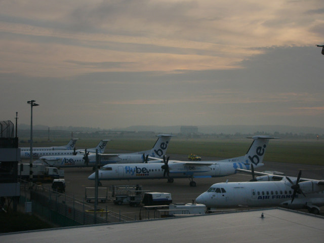 Southampton Airport, early morning